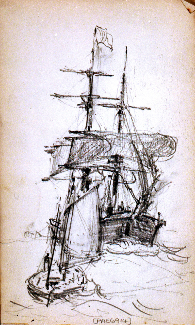 From one of from one of Dade's sketchbooks, at the National Maritime Museum. Graphite on paper; 175mm×106mm. Accession number PAE6914.